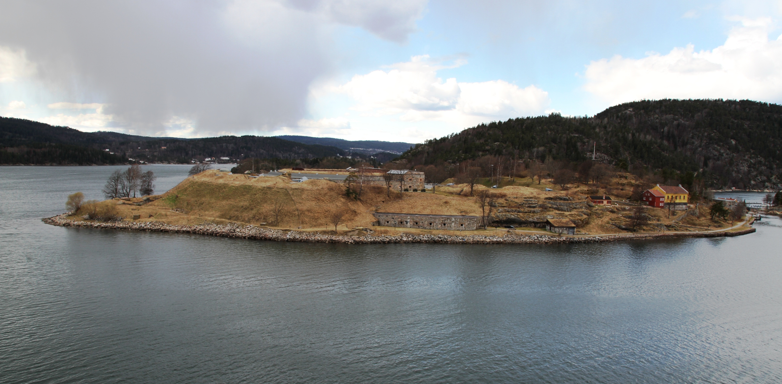 Image of the Kaholmen island with Oscarsborf Fort, in the middle of the Oslo Fjord. This is the fortress that brought down the "Blücher" battleship with 3.000 german crew and soldiers, by early morning of April 9, 1940.